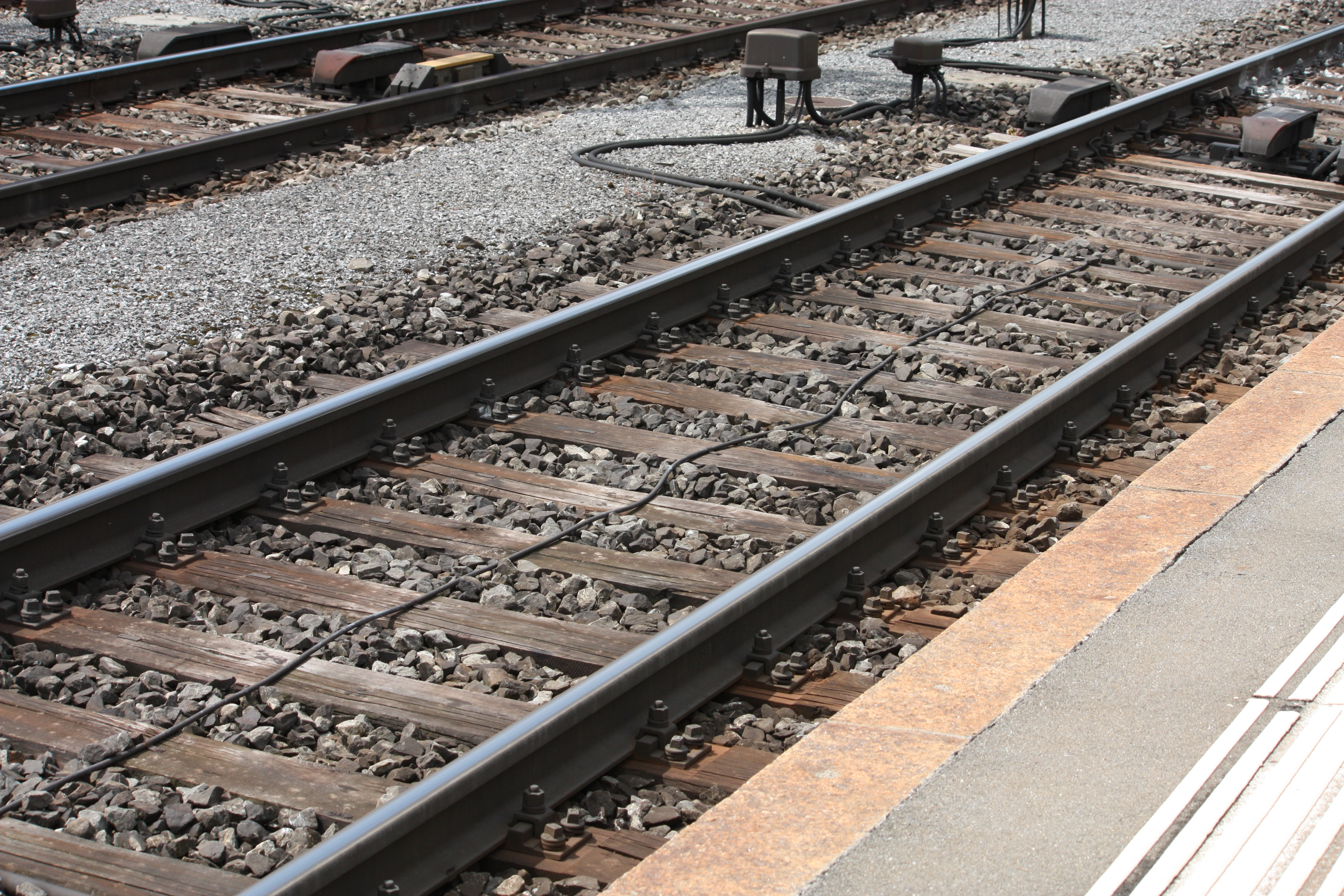 Rotkreuz train station Train protection systems Loop fot the continuous signal transmission of the ZUB 121